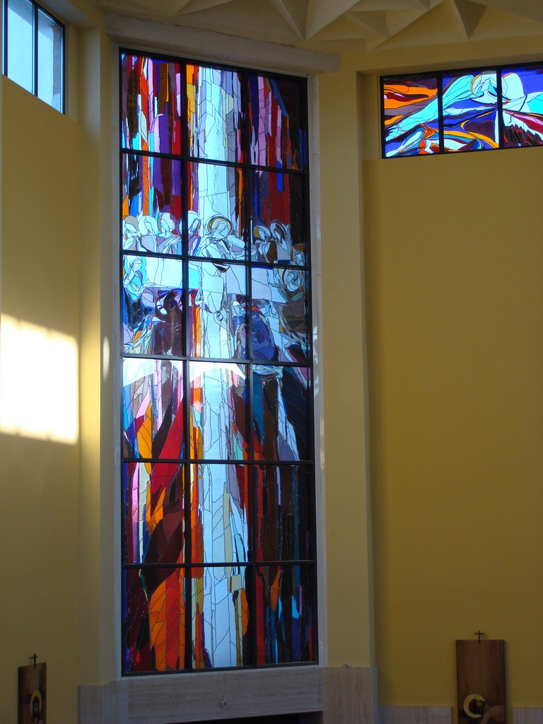 Śrem, Church of the Holy Heart of Jesus.